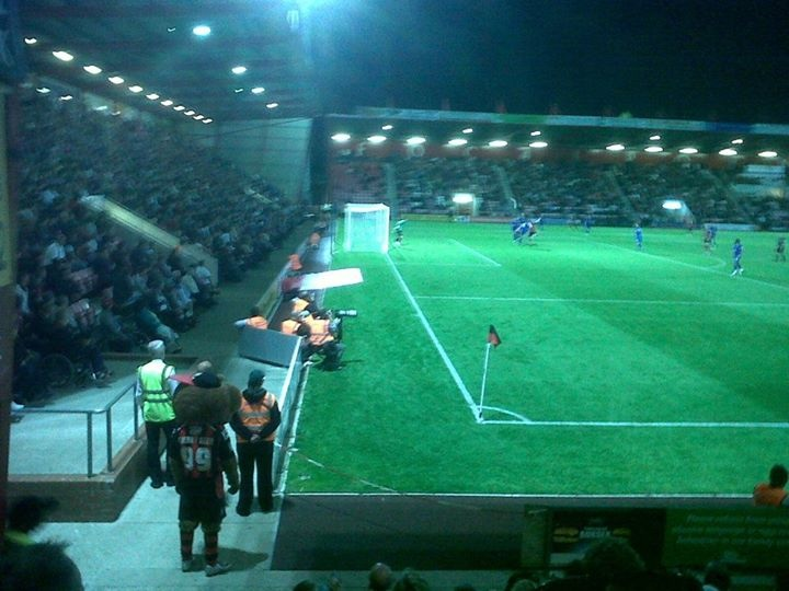 AFC Bournemouth's football stadium (Dean Court)